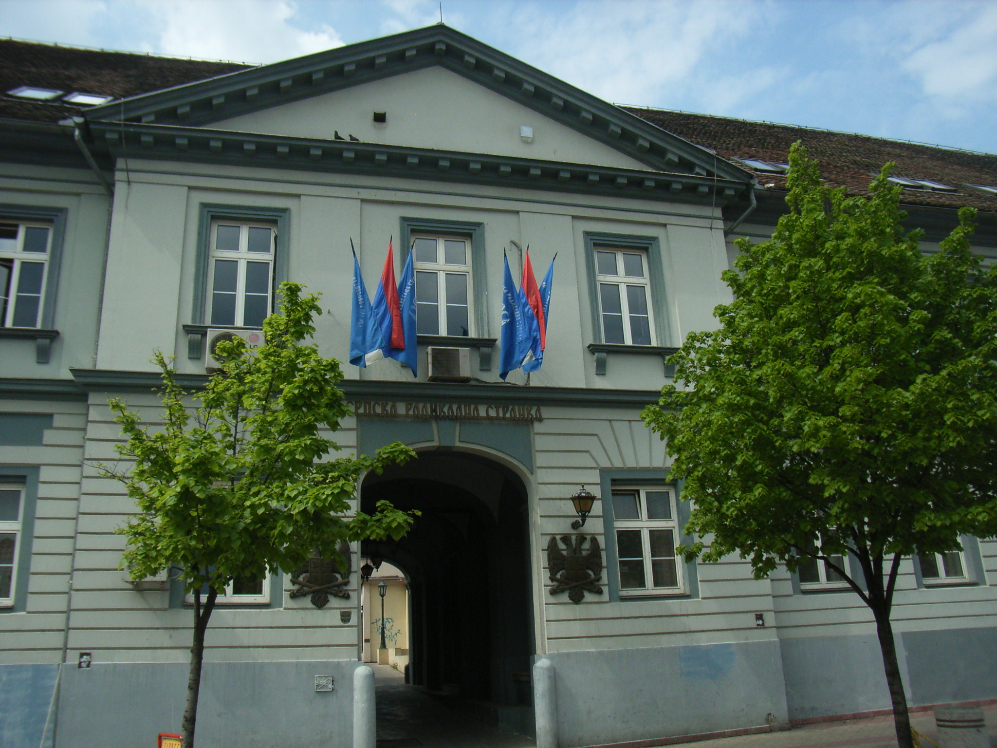 Usurpated building of Zemun Magistrate, now Seat of the Serbian Radical Party in Belgrade-Zemun